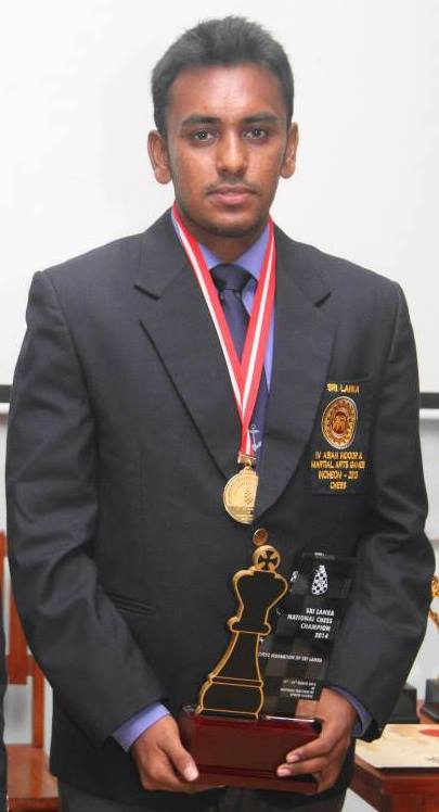 Isuru Alahakoon - Sri Lanka National Champion 2012-14